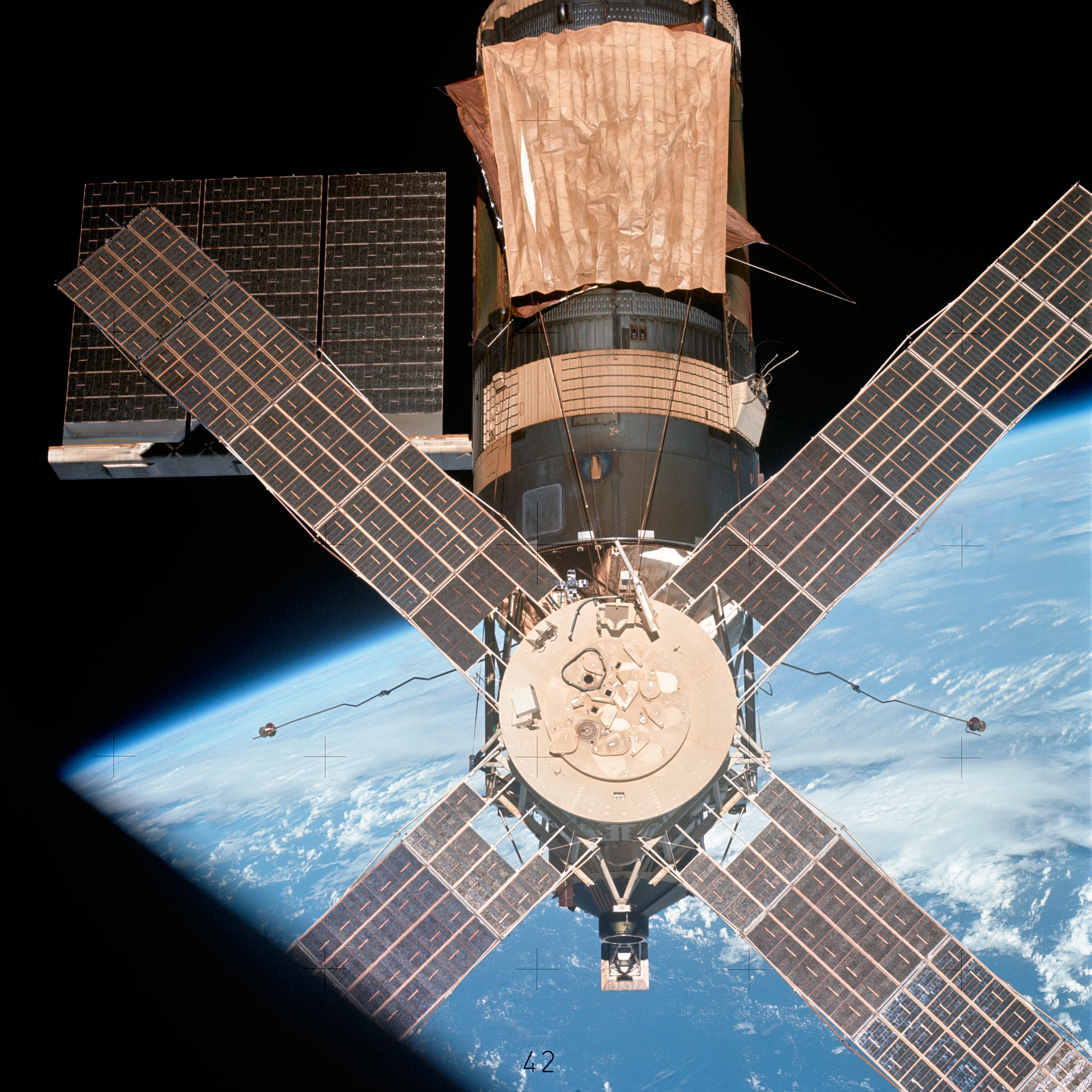 Skylab 4, Skylab flyaround views after the Apollo Command Module (CM)undocking. The Apollo Telescope Mount (ATM), Multiple Docking Adapter (MDA), solar panels, parasol and Orbital Workshop (OWS) are visible. Earth appears in background. Original Film Magazine was labeled CX-45. Camera Data: 70mm Hasselblad; Lens 100mm; Film Type: S0-368 Medium Speed Ektachrome. Flight Date: November 16 1973 - February 8,1974. Image ID: sl4-143-4677